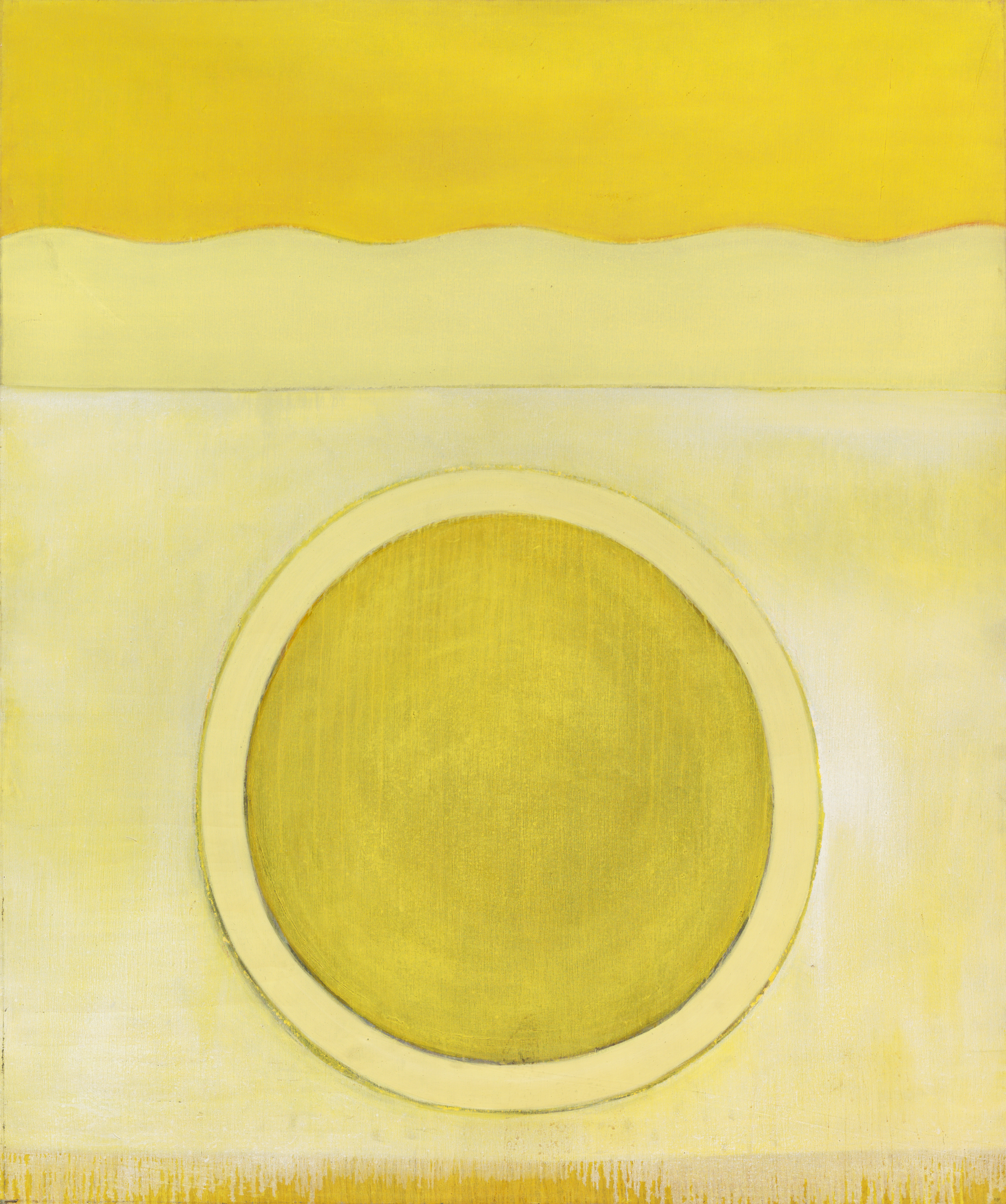 Original California Color Field painting by Robert Donley